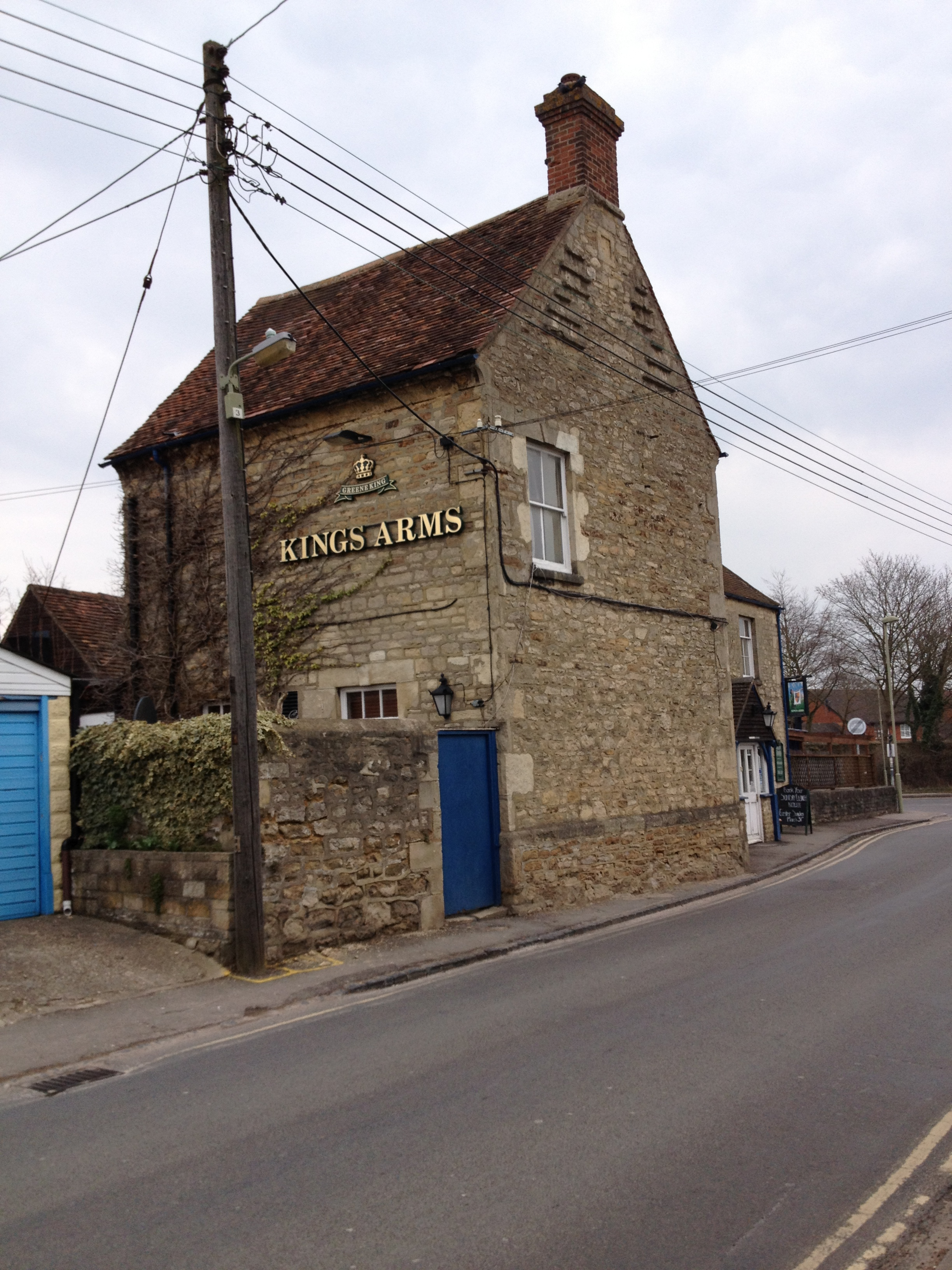 The Kings Arms, Church Road, Wheatley, Oxfordshire